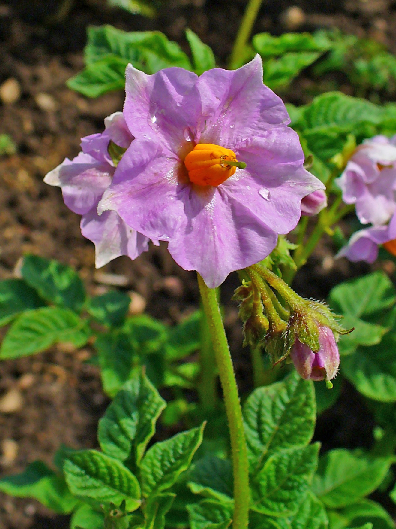 Solanum tuberosum, Solanaceae, Potato, flower. Botanical Garden KIT, Karlsruhe, Germany.